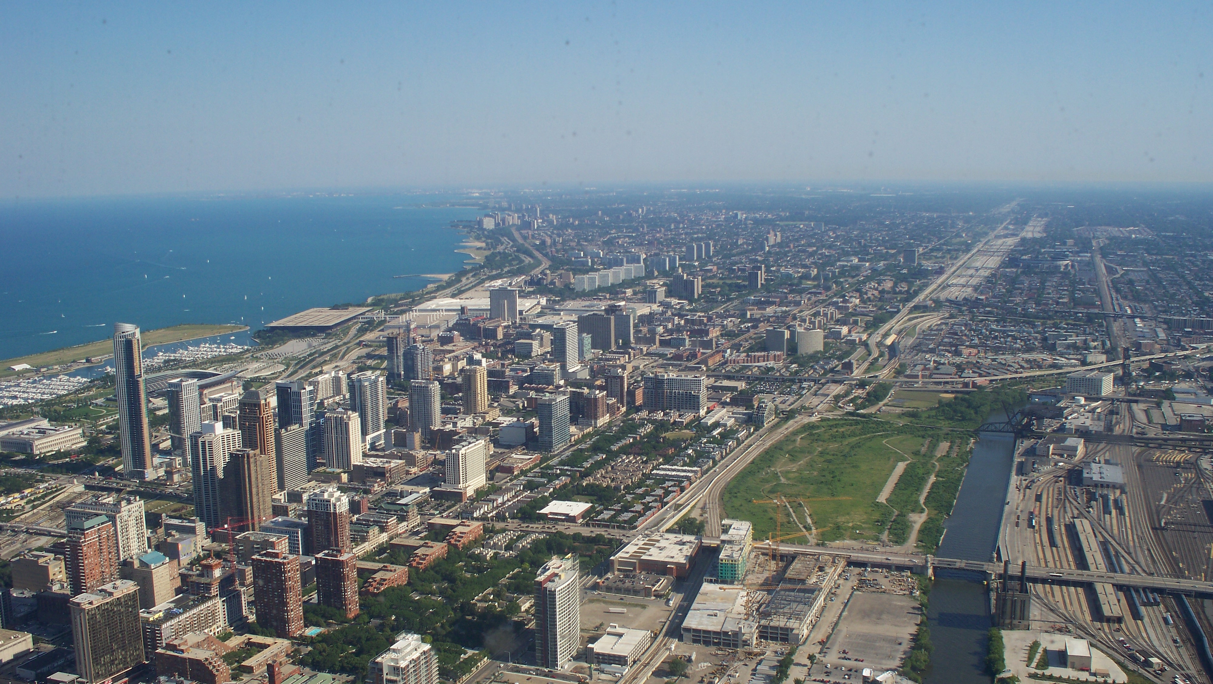 View of Chicago from the Willis Tower